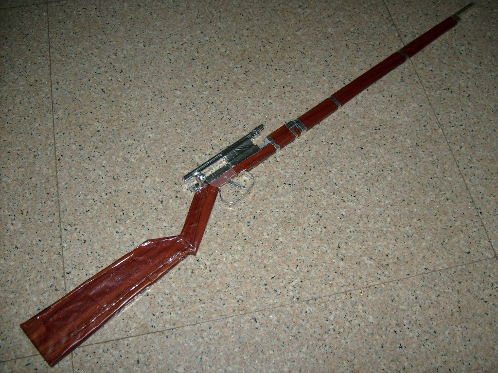 rubberband rifle, made of ice cream sticks and bamboo skewer and some miscellaneous materials